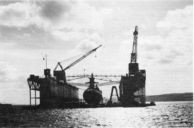 United States Navy ballistic missile submarine undergoing repairs in floating drydock USS AFDB-7 at Holy Loch, Scotland, on 19 March 1963.